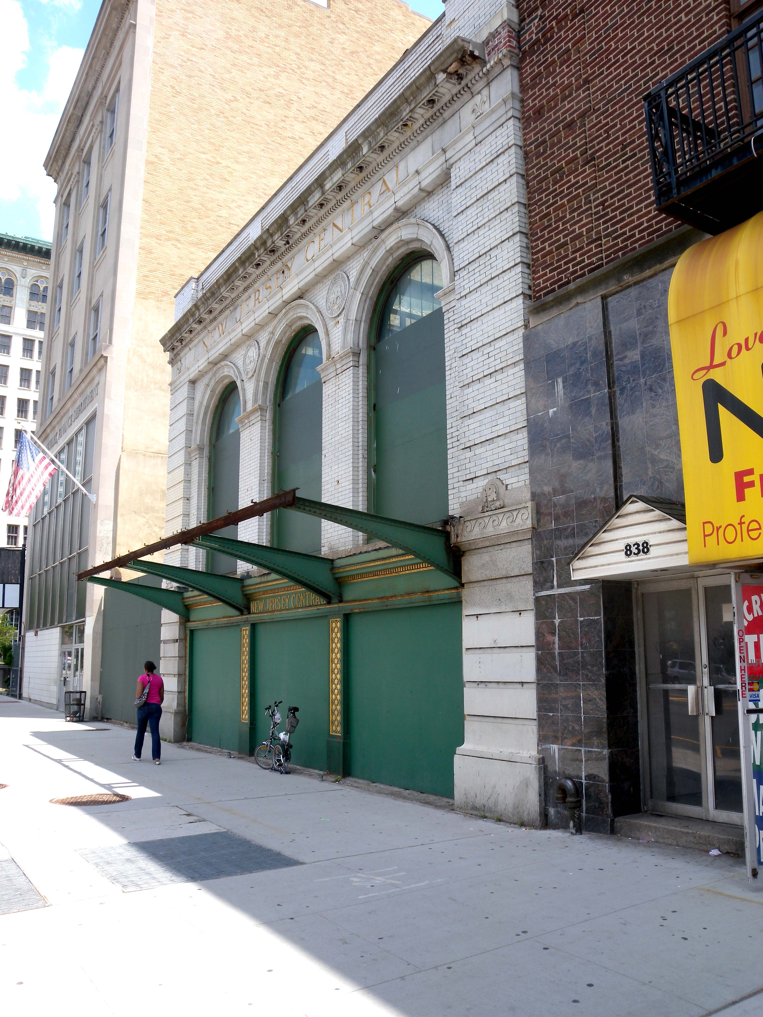 looking northeast along Broad Street at 826 Broad Street, abandoned Lafayette Street terminal of Central Railroad of New Jersey on a sunny midday.